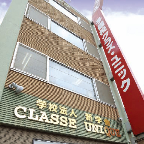 Classe Unique preparatory school, Asabu main school